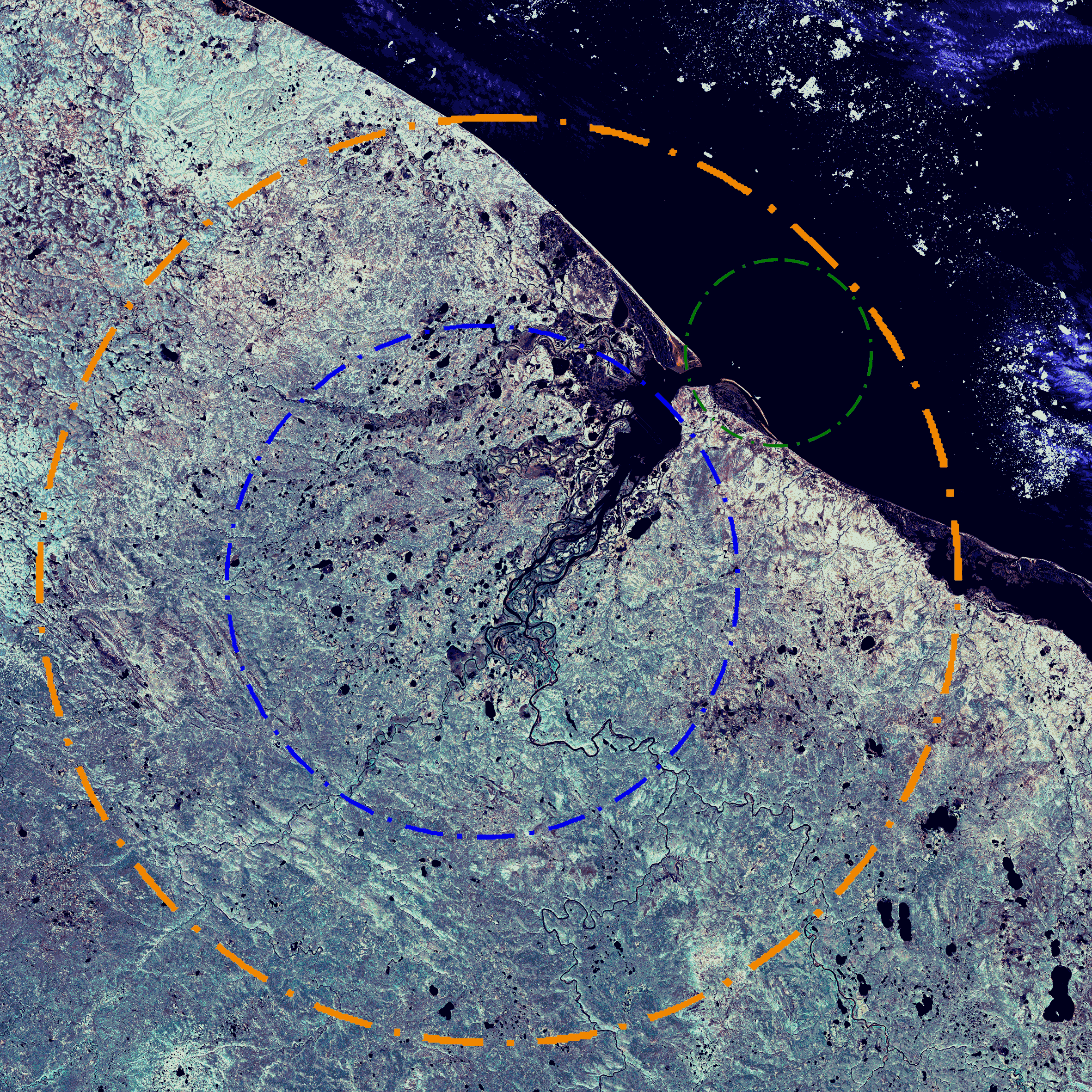 Image of the Kara meteor structure in the Yugorsky Peninsula, Nenetsia, Russia. This is a composite from images obtained by Landsat 7. The yellow circle indicates the crater on the presumption of its diameter of 120 km; the blue and green of diameter 60 and 22 km, respectively. The crater is not clearly distinguishable on the photo; however, the boundary of the depression can be traced by warmer hues.